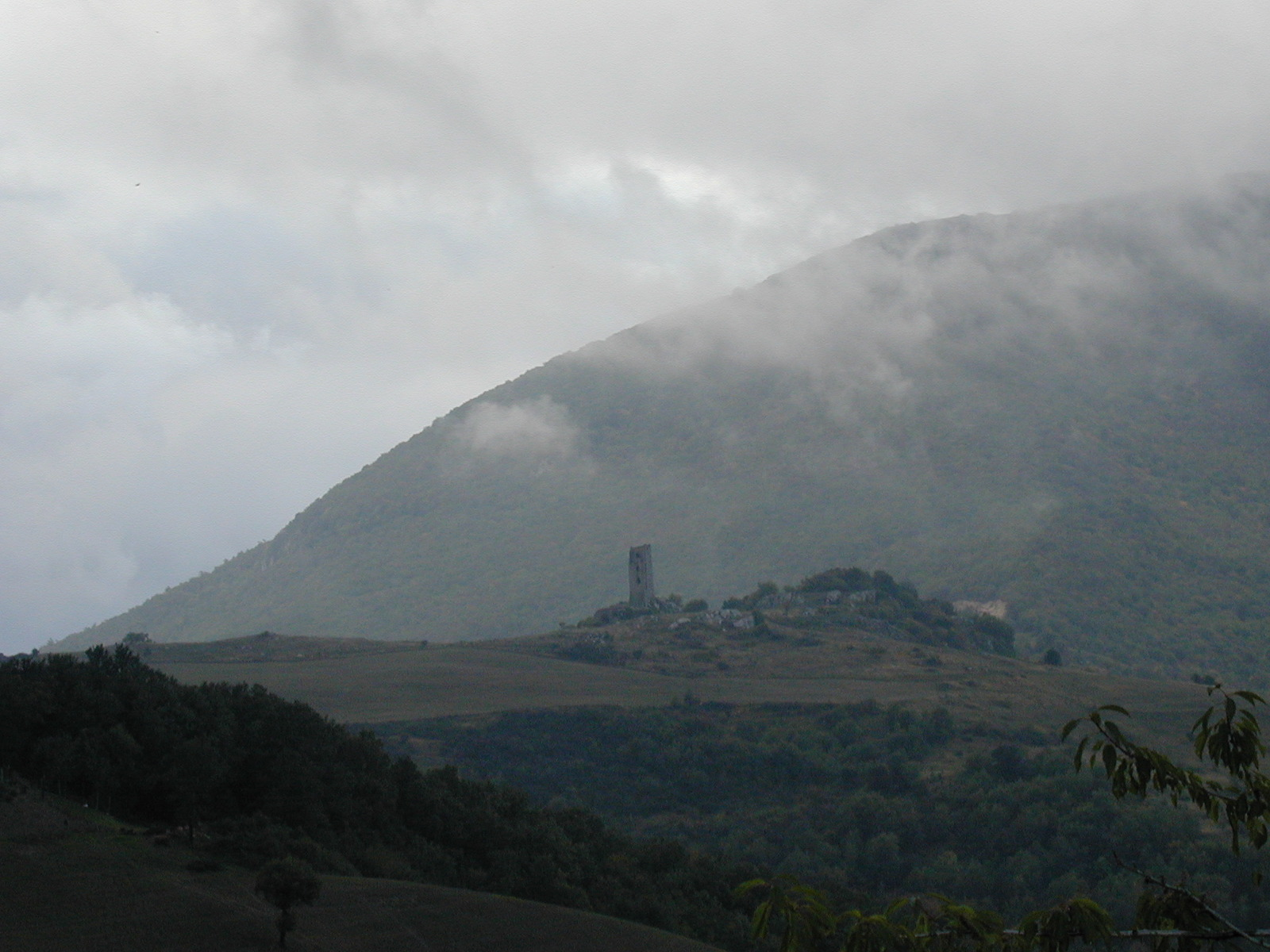 In Majella National Park